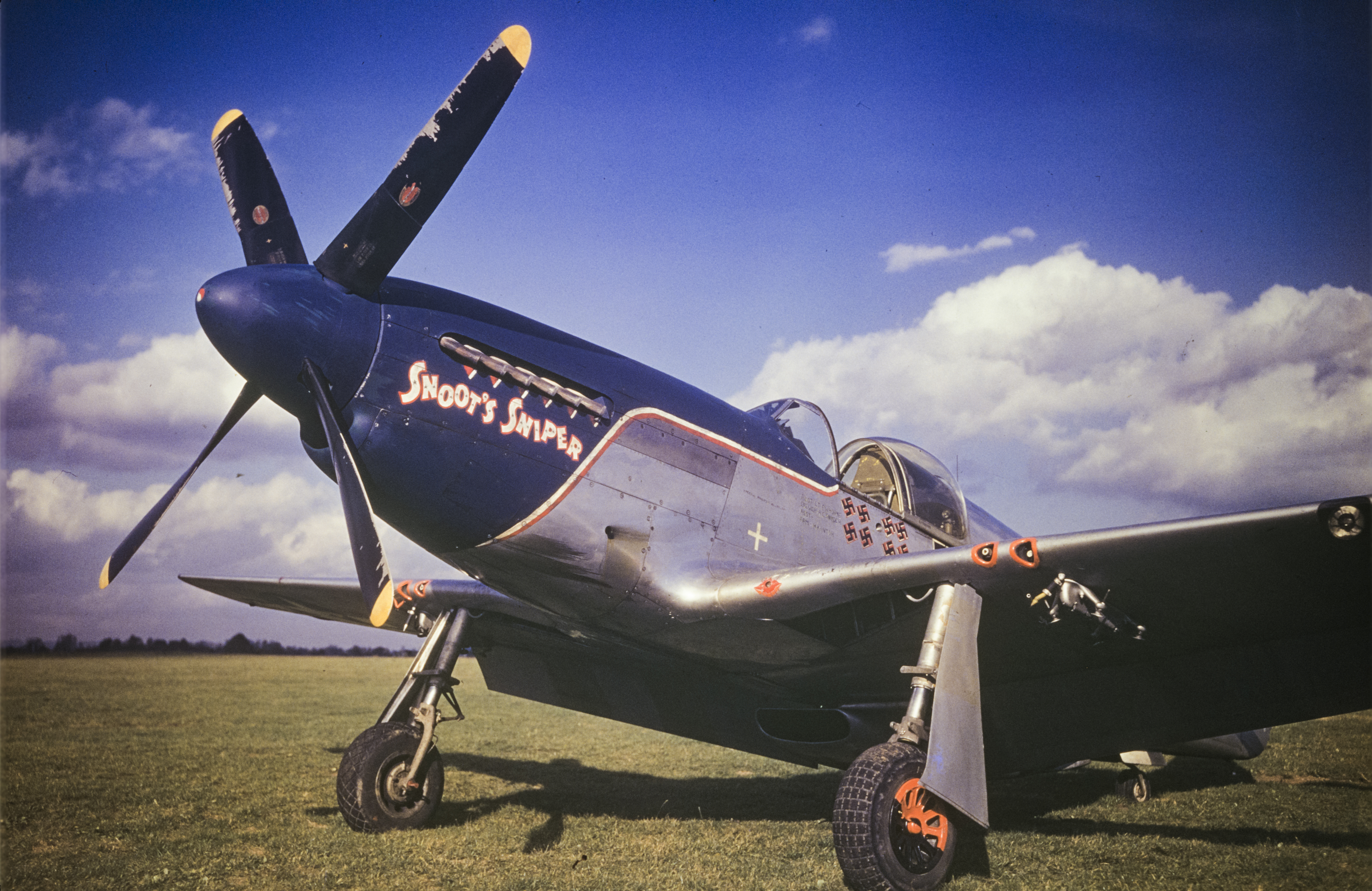 P-51 Mustang (42-106703) "Snoot's Sniper" of the 352nd Fighter Group at RAF Mount Farm